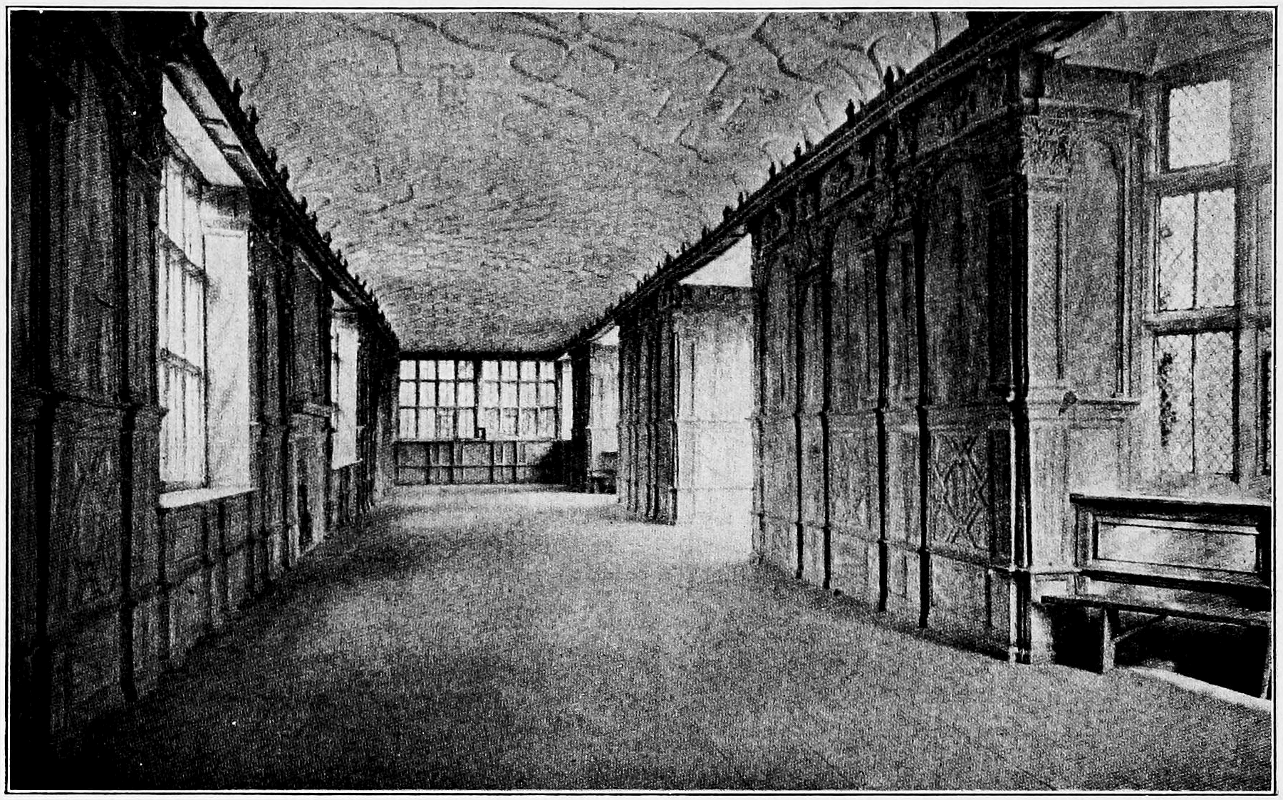 Illustration in a book, the subject, indicated by the removed caption, is "The Gallery of Haddon Hall."